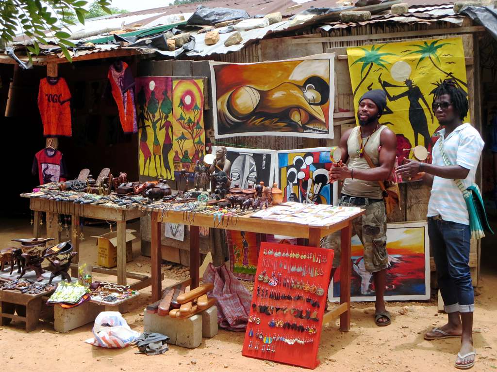 Souvenir vendors at the Hotel Campement de Kloto in the Forêt de Missahohe at Kouma-Konda village near Kpalime, Togo.